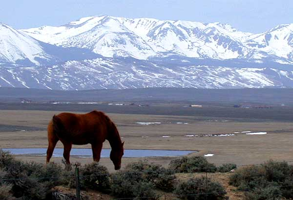 The Arapaho National Wildlife Refuge in Jackson County, Colorado in the United States. View is southwest from Colorado State Highway 14 over the valley of the Illinois River in North Park. The Park Range is in the background. April 18, 2005.